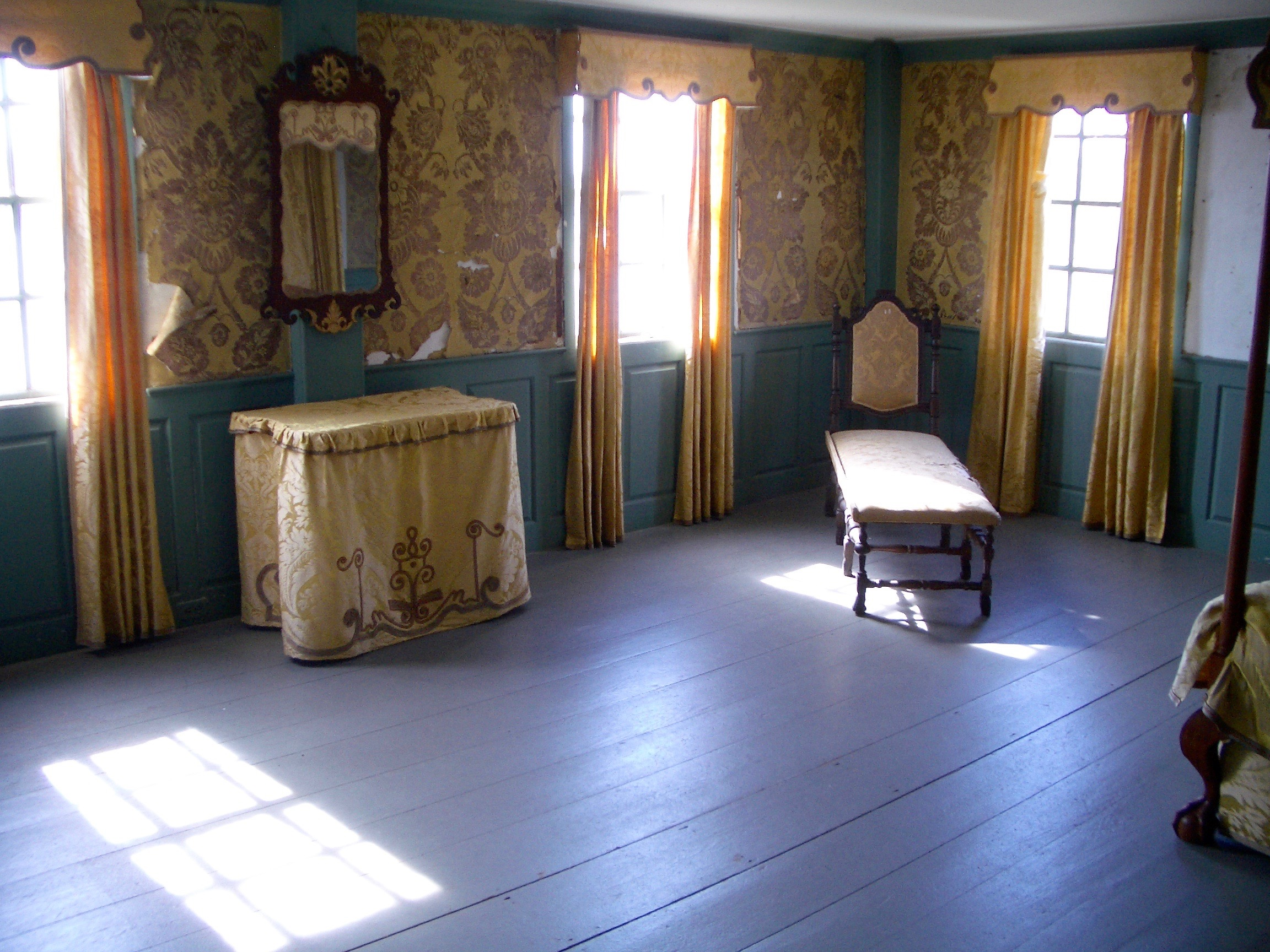 Wentworth-Coolidge Mansion best bed chamber, image 2, showing eighteenth-century wallpaper and twentieth-century reproduction wool damask fabric.